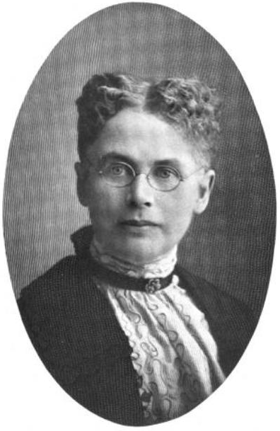 Portrait of Willella Howe-Waffle from Historical and Biographical Record of Southern California, 1902, page 664